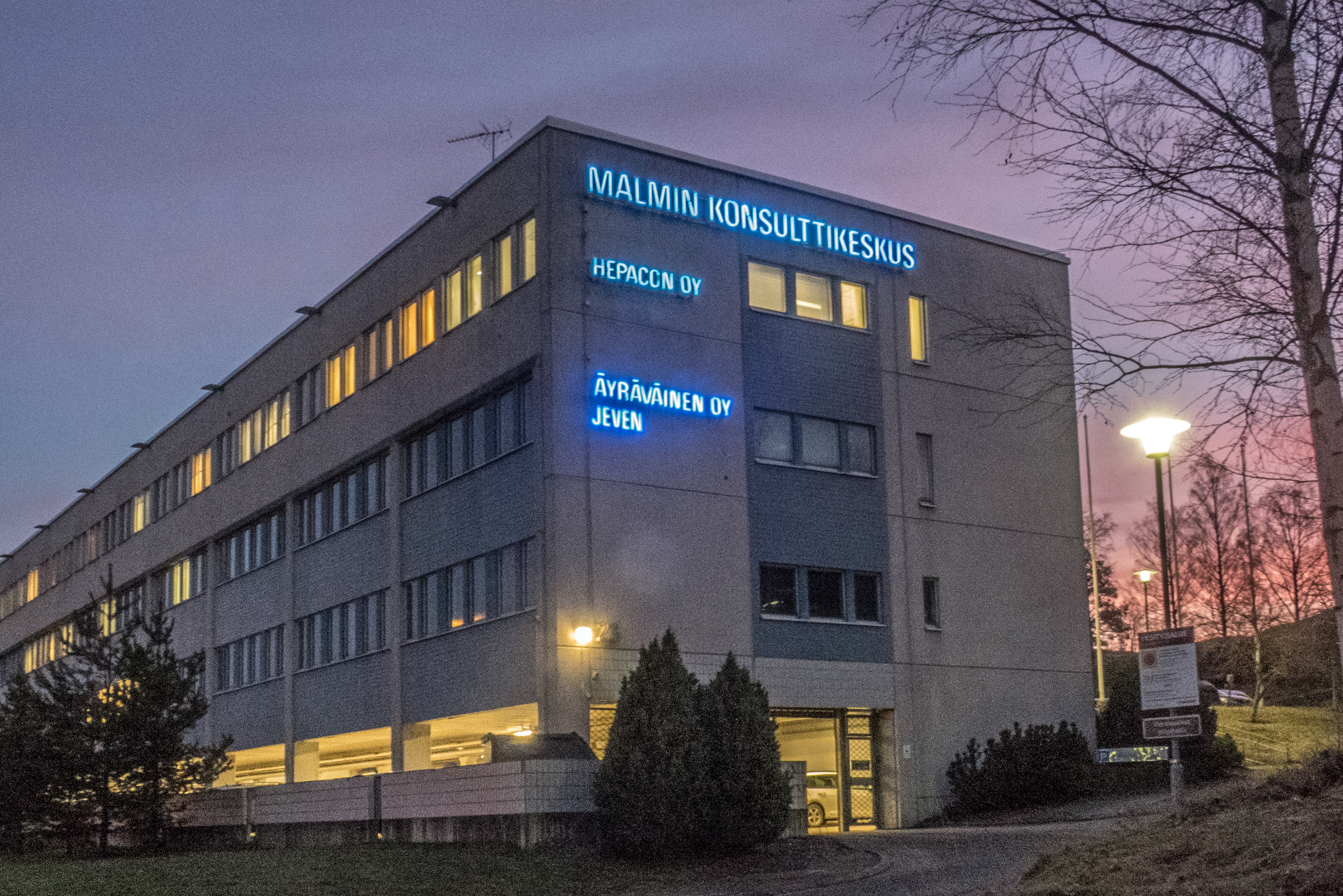 Malmin konsulttikeskus